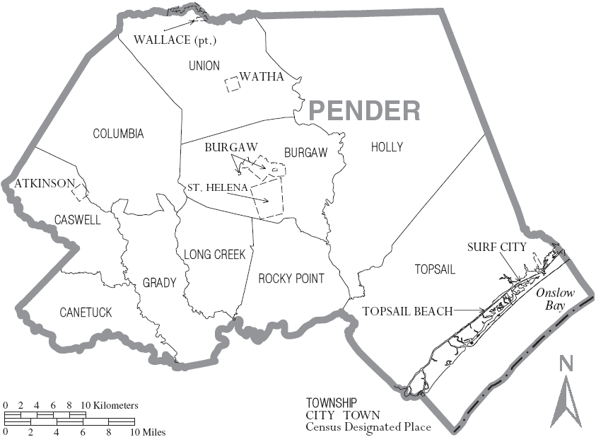 Map of Pender County, North Carolina, United States with township and municipal boundaries